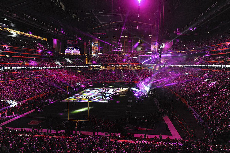 Halftime show during Madonna's performance of "Music"